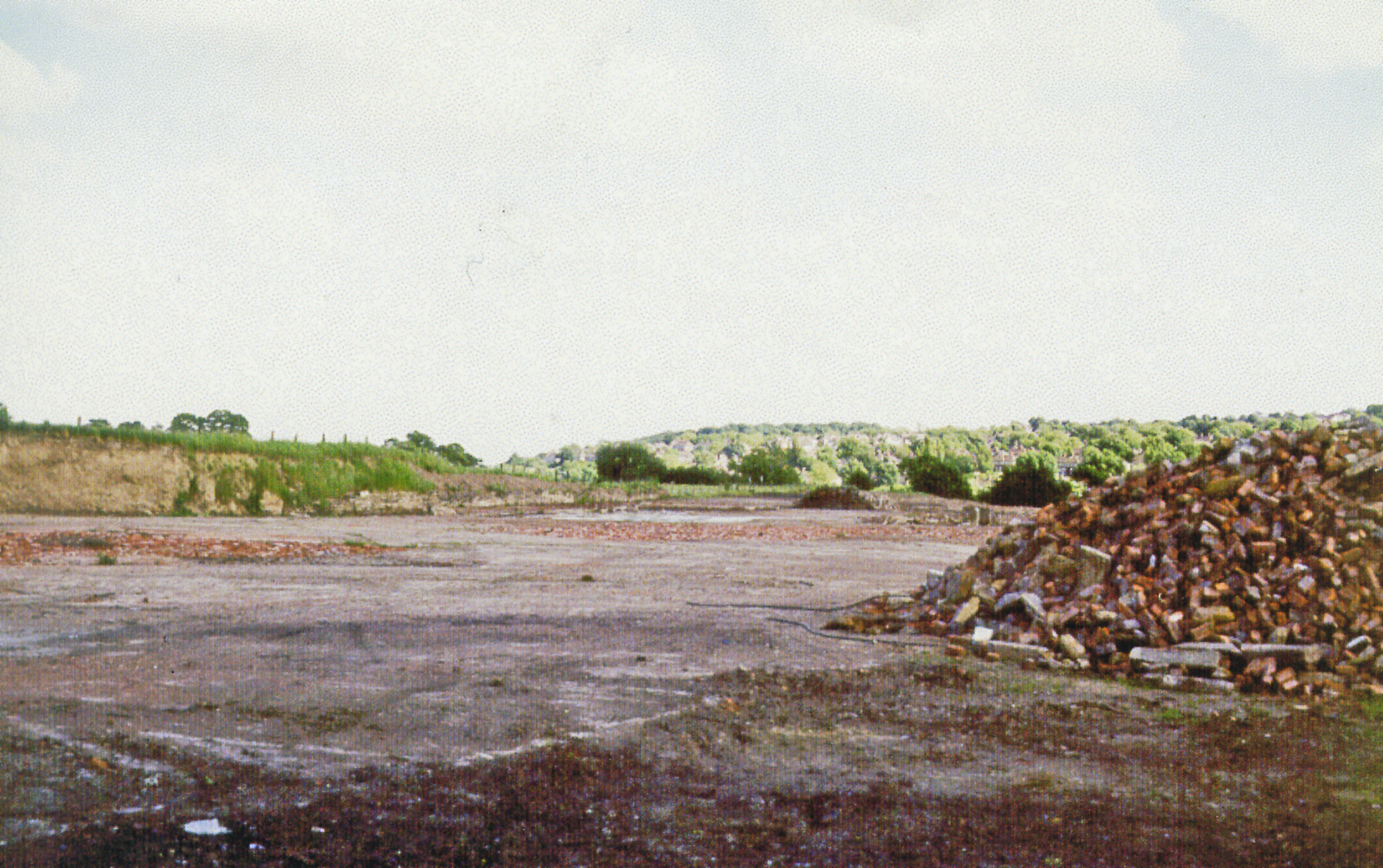 Site of former Ecclesfield East station, 1998. The first of the two Sheffield - Barnsley railways through the Blackburn Valley was the ex-GCR line here, with a station at Ecclesfield ('Ecclesfield Esat from 25/9/50) lasted only until 7/12/53. (The parallel ex-Midland line is still open but its Eccesfield (West) station closed in 11/67). The view over waste-ground is eastward on the road to Thorpe Common and the M1 motorway runs through just ahead.